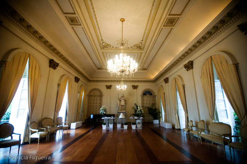 Salão Dourado da UFRJ